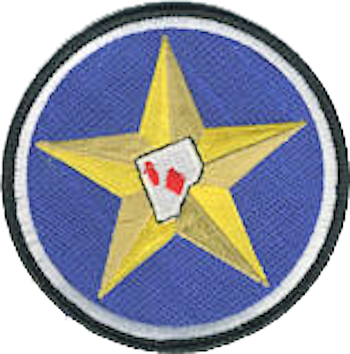 111th Fighter-Interceptor Squadron - Emblem